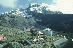 Southern Icefields viewed from Umbwe Route at Barranco Camp